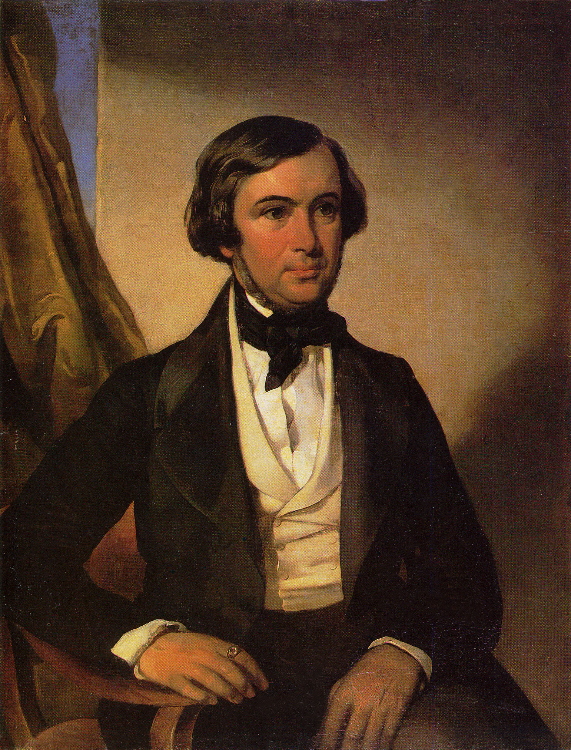 Portrait of Karol Lipiński